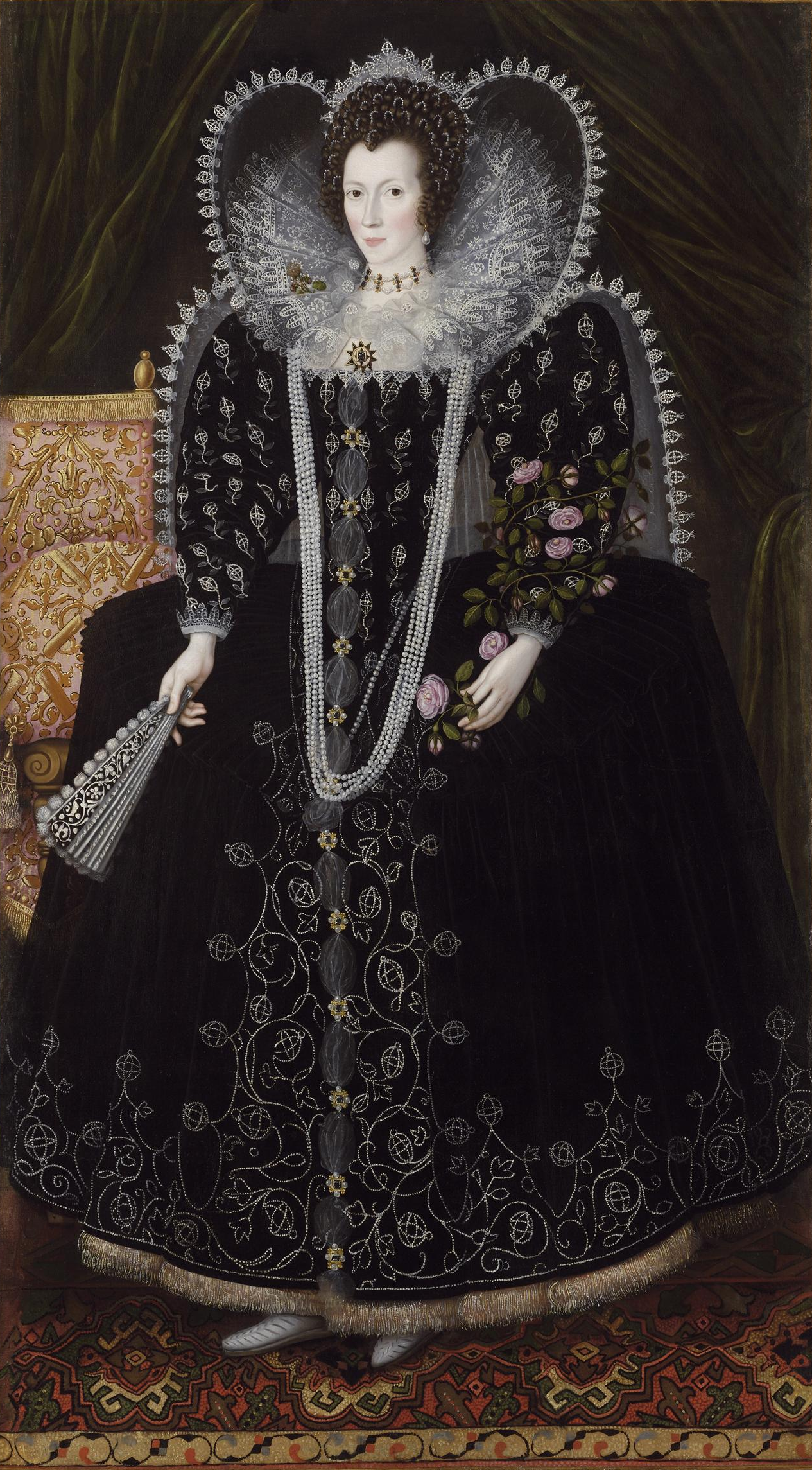 Portrait of a Lady, probably Frances Howard, dowager Countess of Kildare (c.1572 – 1628), later Baroness Cobham, daughter of Charles Howard, 1st Earl of Nottingham and Catherine Howard, Countess of Nottingham.